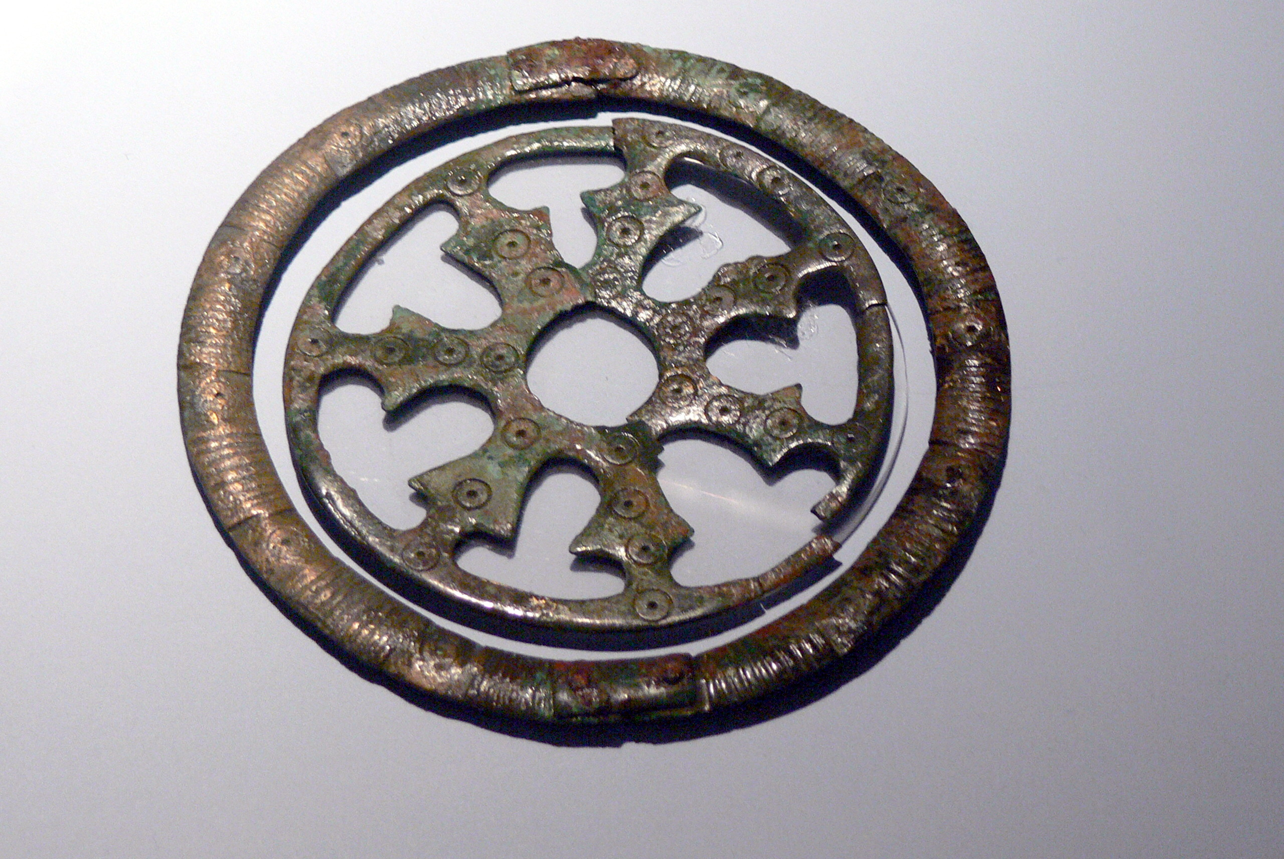 German National Museum ( Nuremberg / Germany ). Alamannic bronze disc with bronze ring, worn on a chatelaine, 6th century AD , from Herbrechtingen.